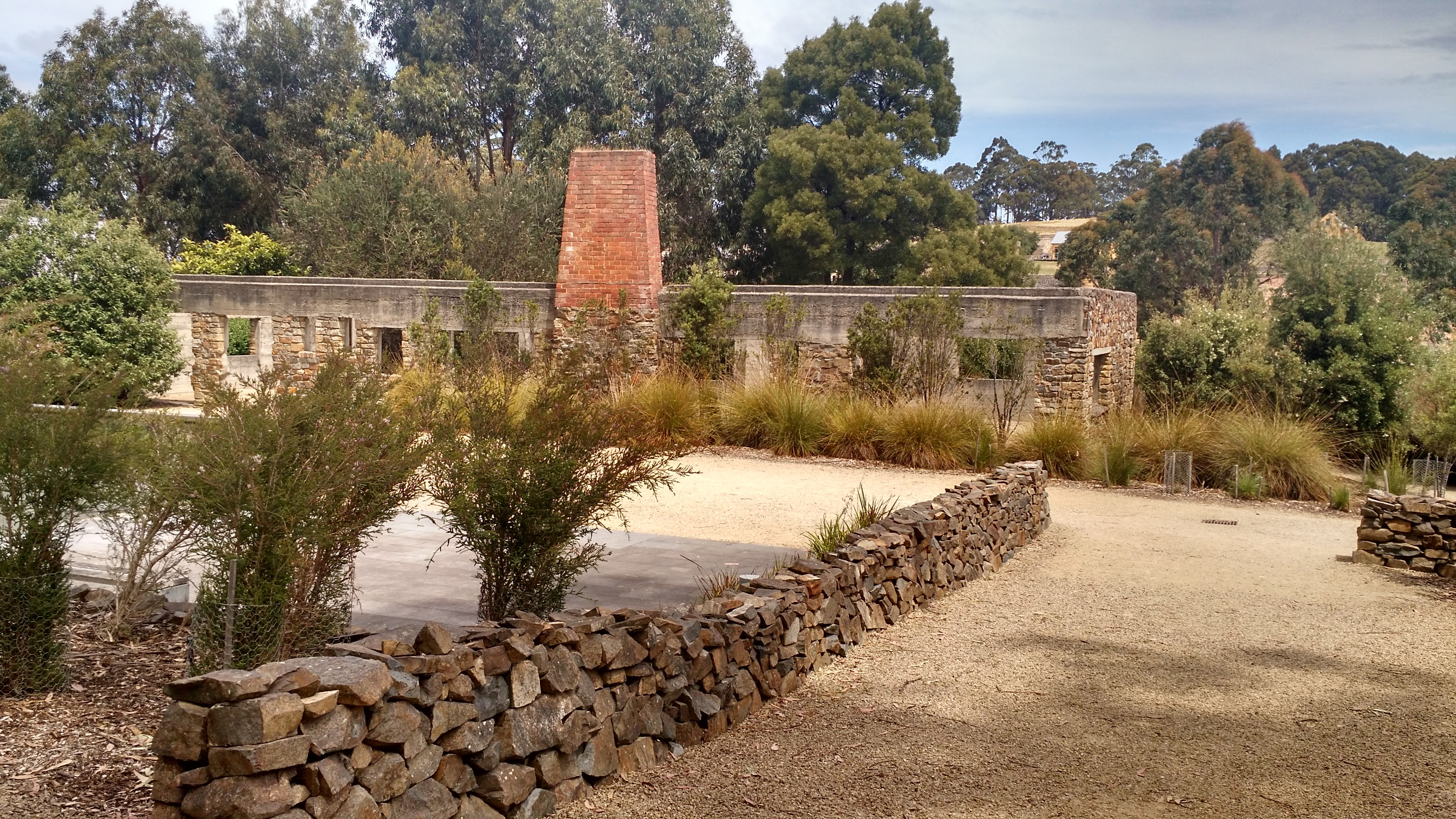 A photo taken by myself in December 2015 in the Port Arthur massacre Memorial Garden. The stone structure was previously the Broad Arrow café, where part of the tragedy took place.